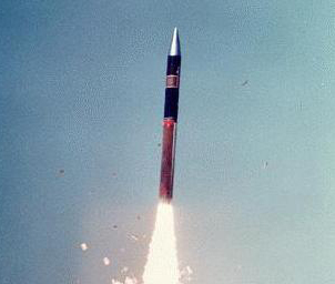 Midgetman prototype (XMGM-134A)